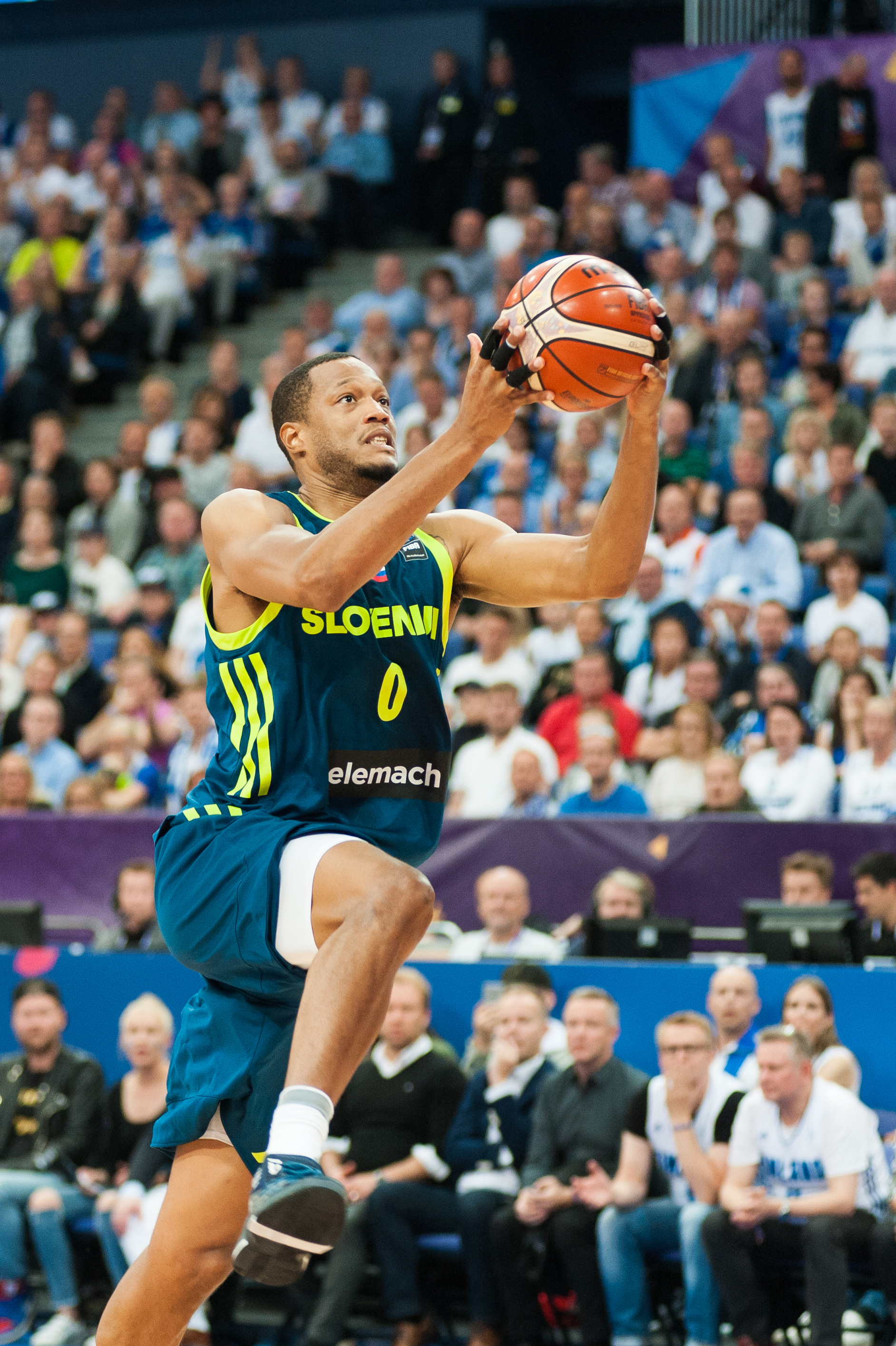 EuroBasket 2017 Group A game between Finland and Slovenia at Hartwall Arena in Helsinki, Finland.